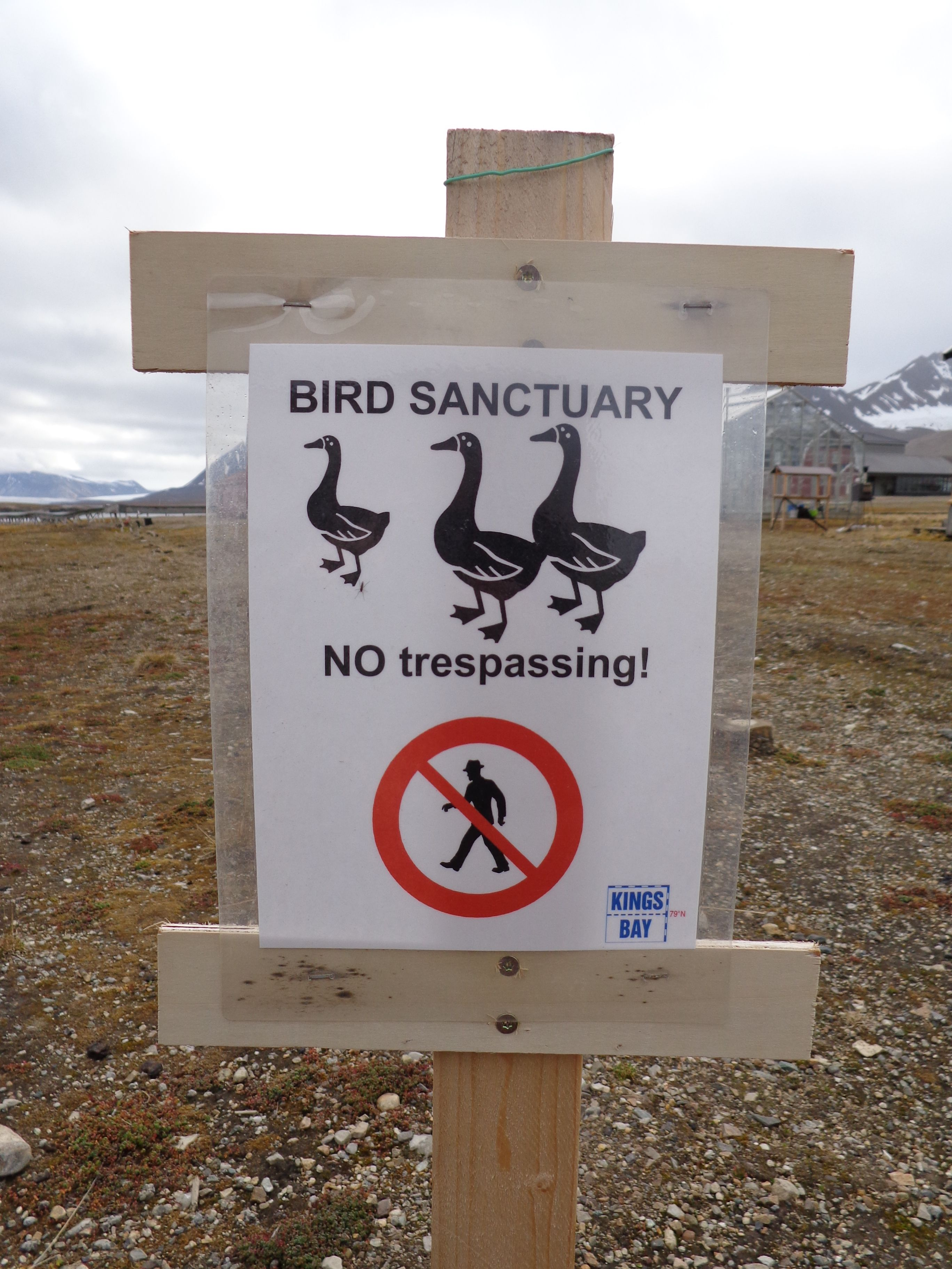 Warning sign for the bird sanctuary in Ny-Ålesund